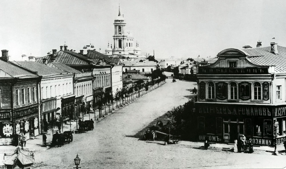 (then) Alekseyevskaya (later) Bolshaya Kommunisticheskaya (now) Aleksandra Solzhenitsyna street in Moscow, radiates from Taganka Square.